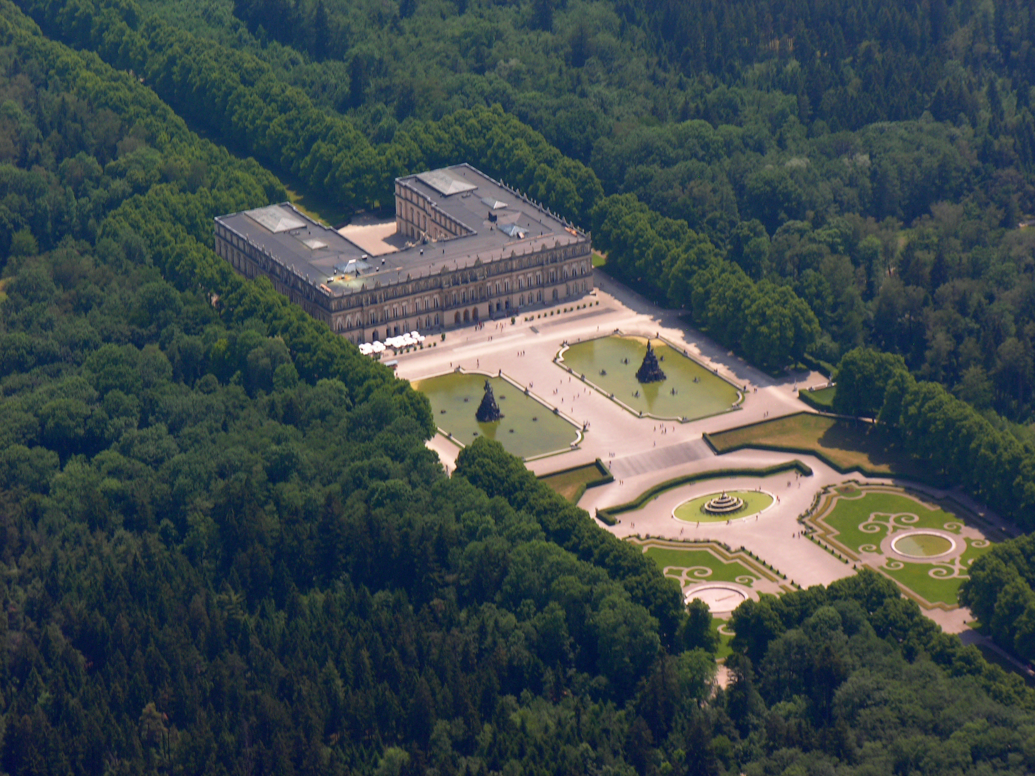 Germany, Bavaria, Herrenchiemsee castle